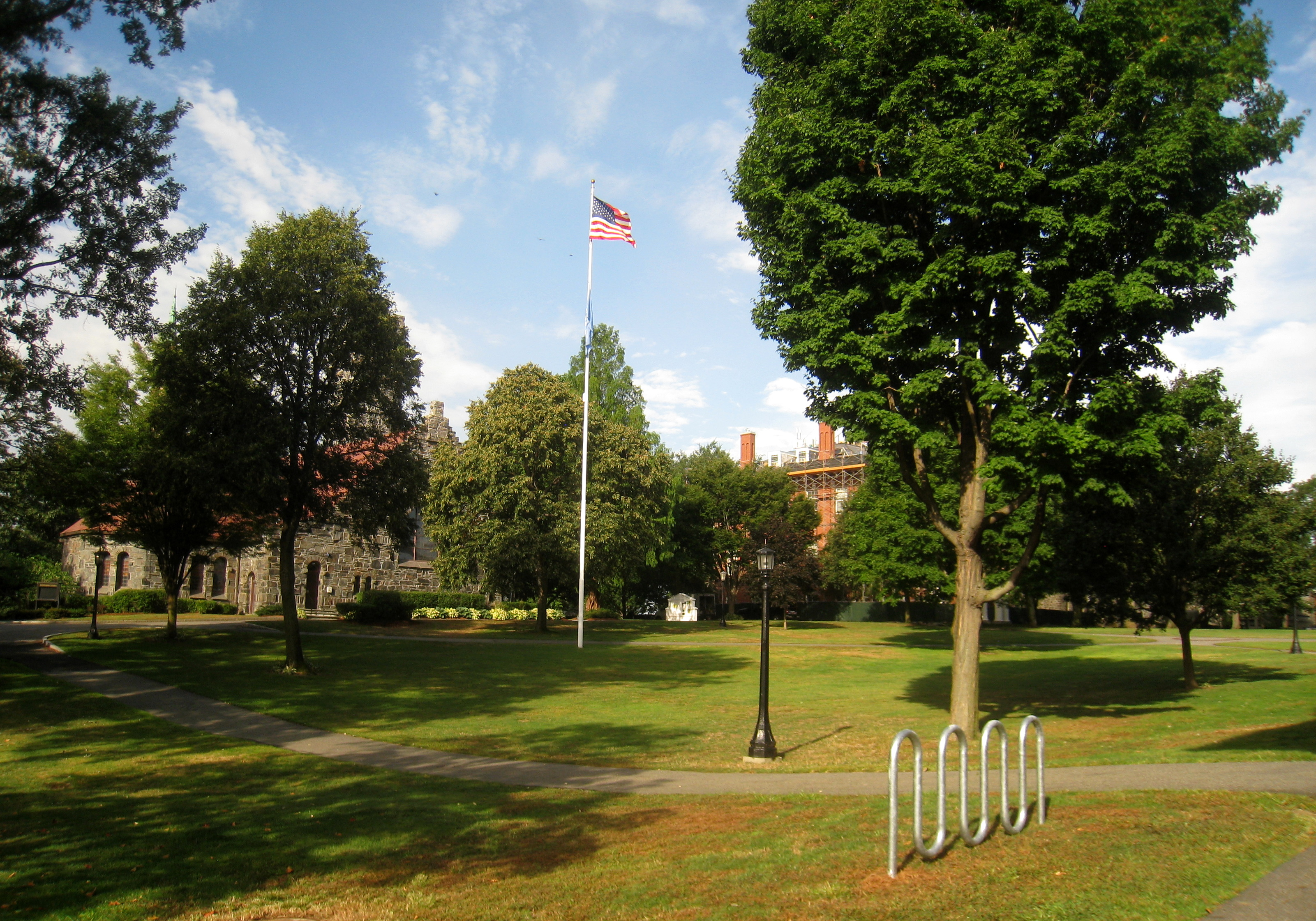 Campus view, Tufts University, Medford, Massachusetts, USA.